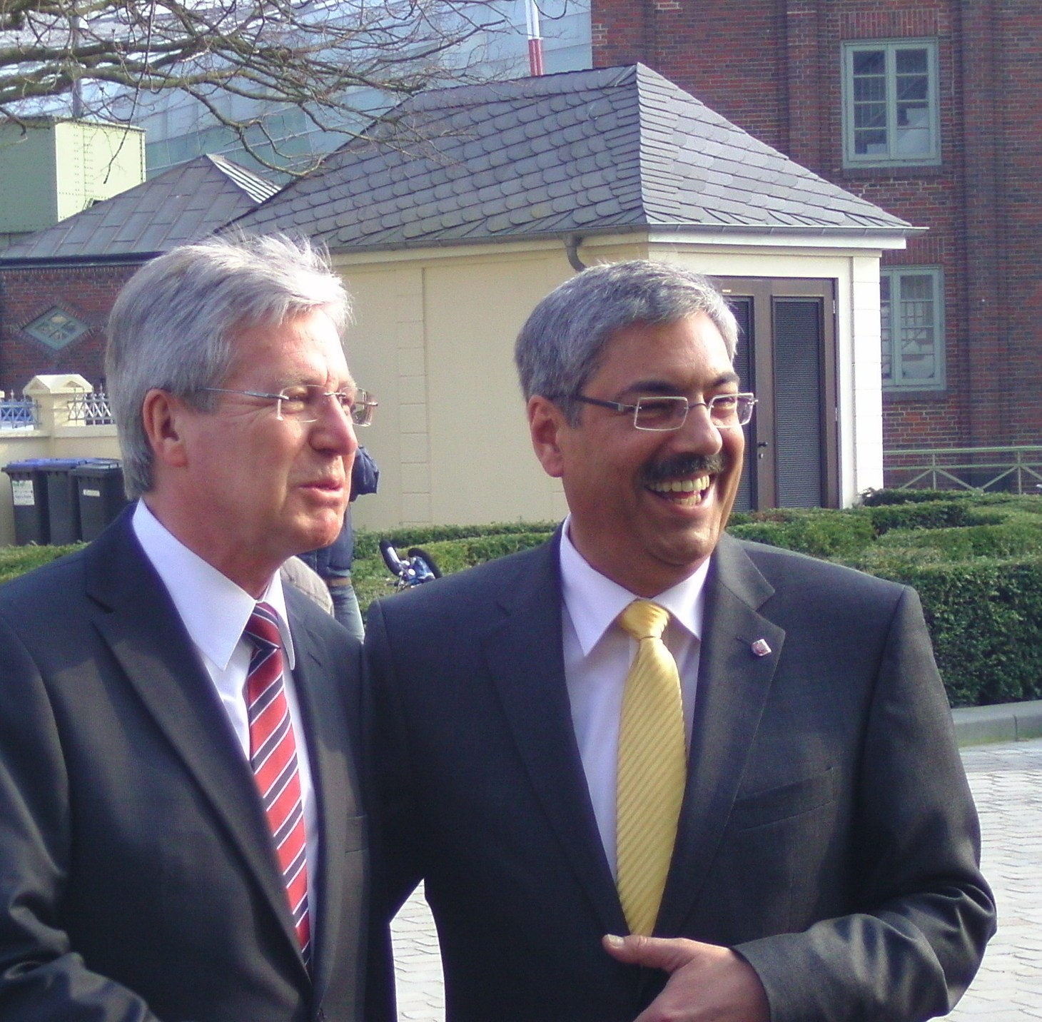 Jens Böhrnsen (on the left), the President of the Senate of Bremen, and Melf Grantz (on the right), Mayor of Bremerhaven, during a visit of the President of Germany to Bremerhaven